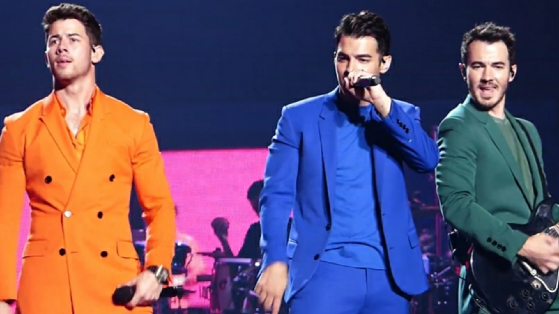 Jonas Brothers in 2019